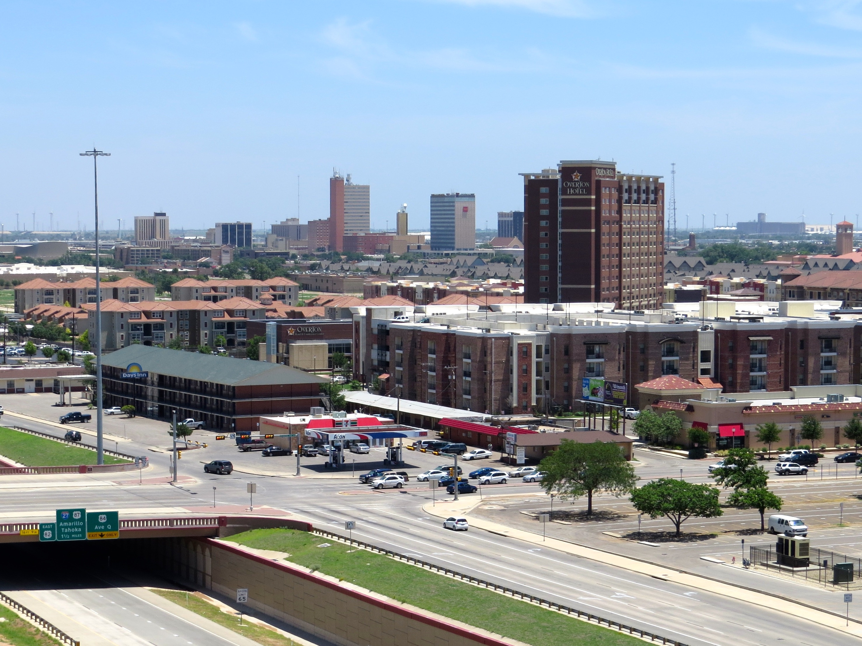 View of the Lubbock, Texas skyline from Marsha Sharp Freeway corridor.